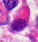 Photomicrograph of a rhabdoid tumour cell.